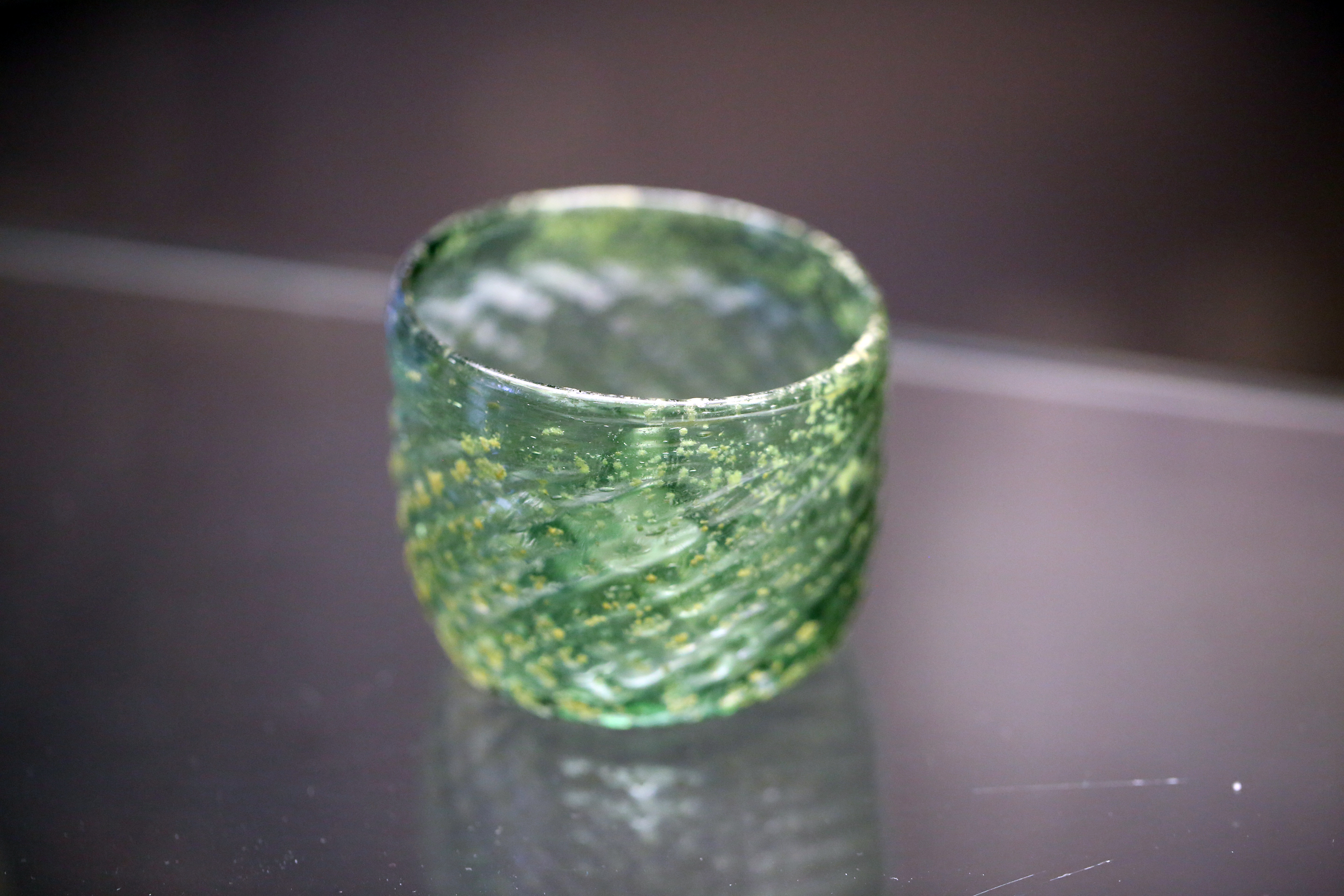 The Maigelein, was a medieval drinking bowl. Permanent exhibition Kölnisches Stadtmuseum, in Cologne